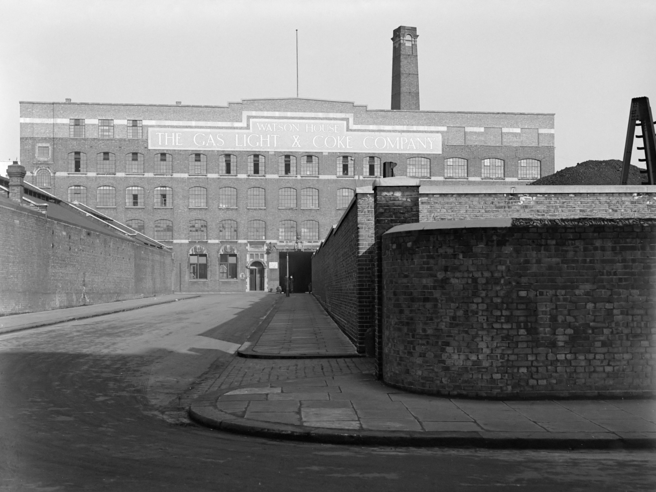 Watson House, London: a former Crosse and Blackwell food factory that the Gas Light and Coke Company converted in 1926 into stores (ground, first and second floors) and laboratories (third floor).